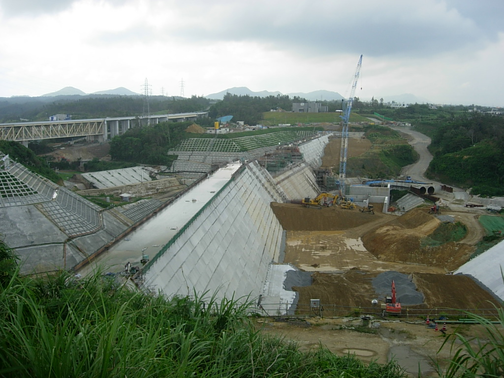 Downstream side of Okukubi Dam in July 2011, during construction.